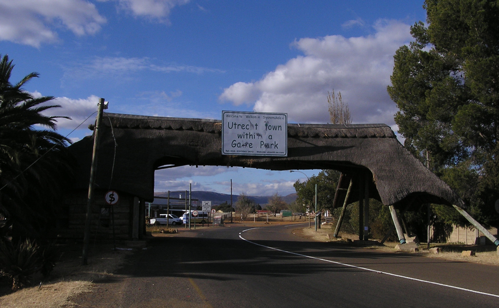 Utrecht, KwaZulu-Natal, South Africa.